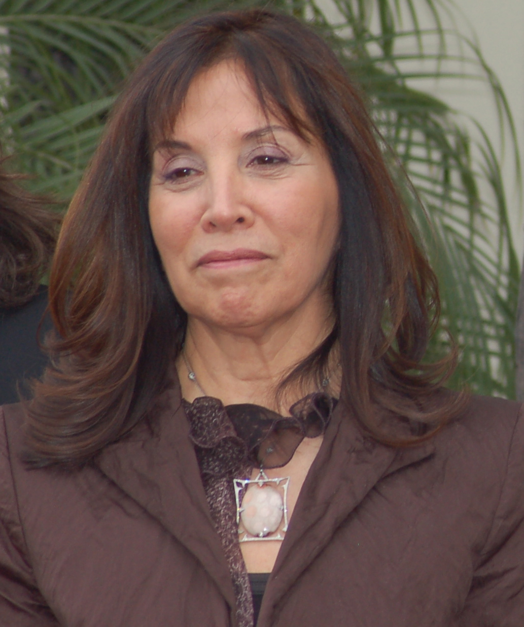 Olivia Harrison in April 2009